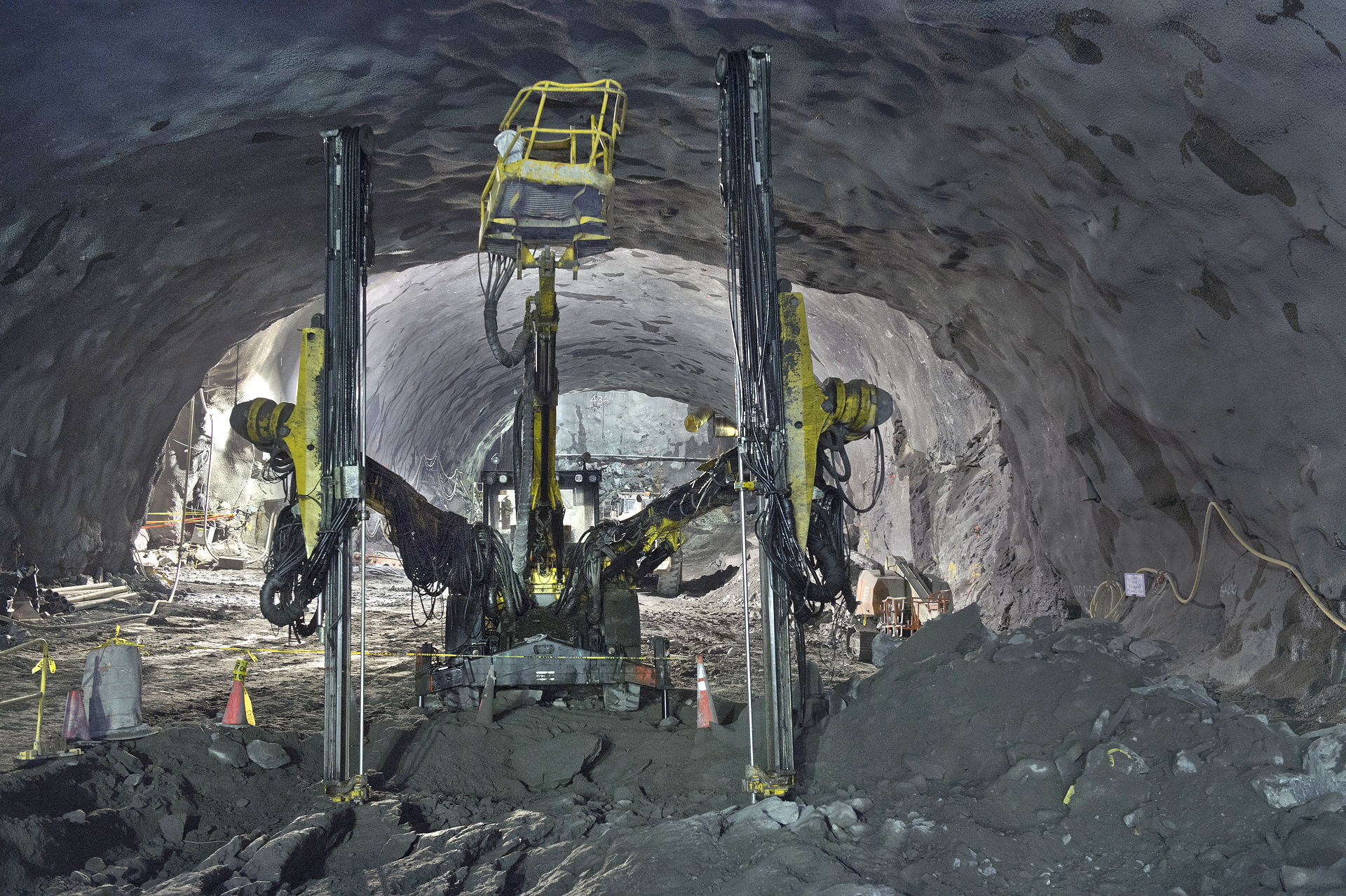 Excavation work on the cavern that will house the Second Avenue Subway's 86th Street Station continues as of February 23, 2013. Photo: Metropolitan Transportation Authority / Patrick Cashin.